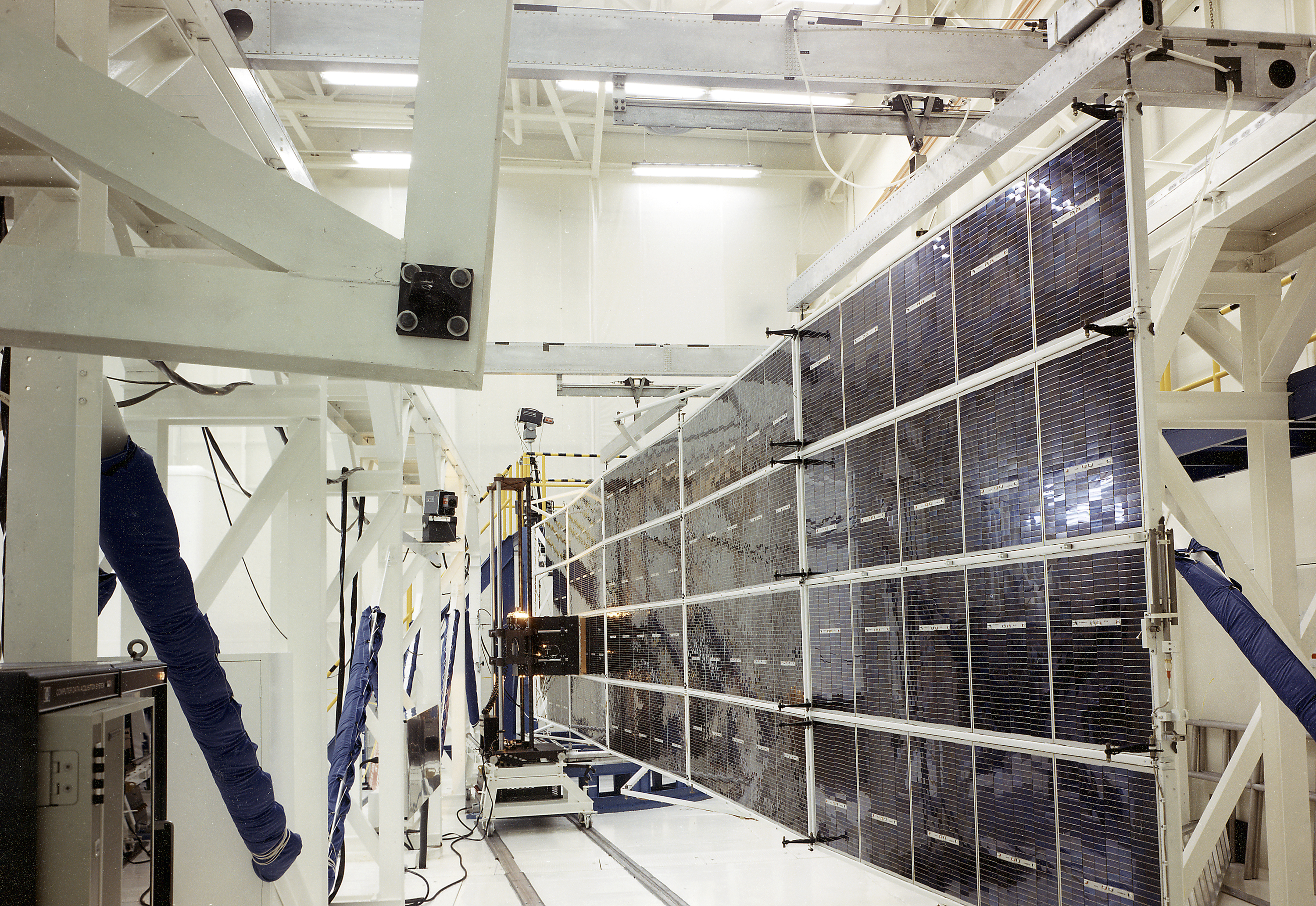 The Apollo Telescope Mount (ATM), one of four major components comprising Skylab, was designed and developed by the Marshall Space Flight Center. Power to operate the ATM's instruments and experiments was collected by four solar arrays, capable of producing up to 1.1 kilowatts of electricity. This is a photograph of the ATM Solar Array flight unit deployed for illumination testing.